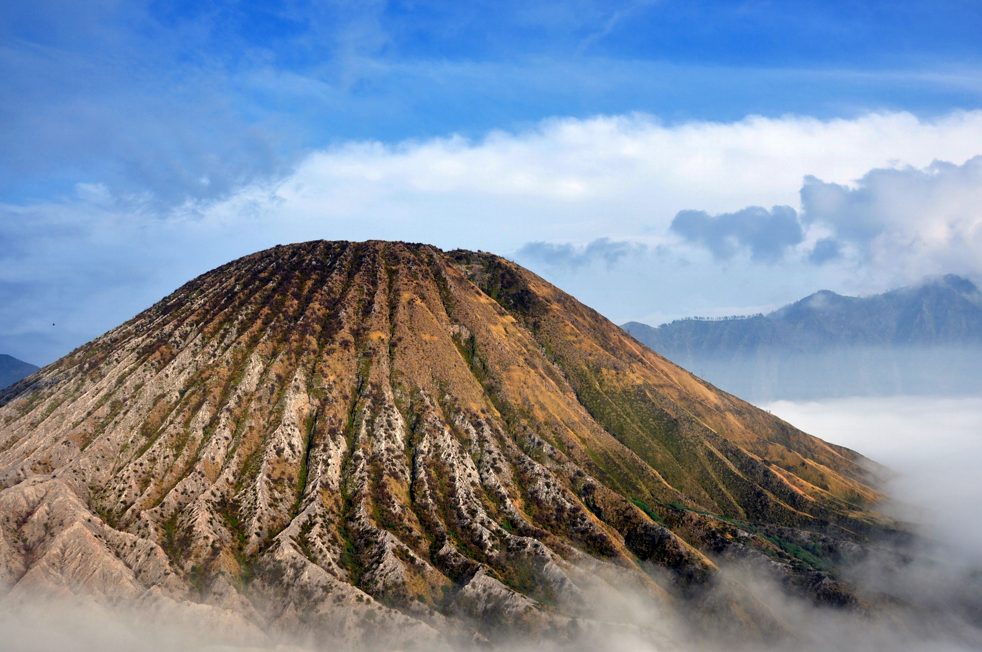 Mount Batok, Tengger Caldera, Java, Indonesia. Part of the Bromo Tengger Semeru National Park.